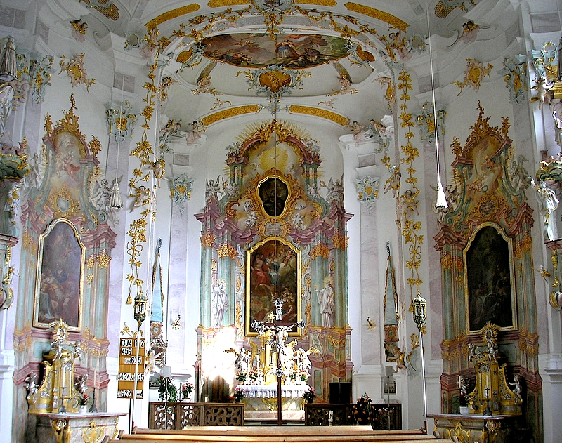 St. Thekla (Welden near Augsburg, Bavaria, Germany). Interior, looking east.